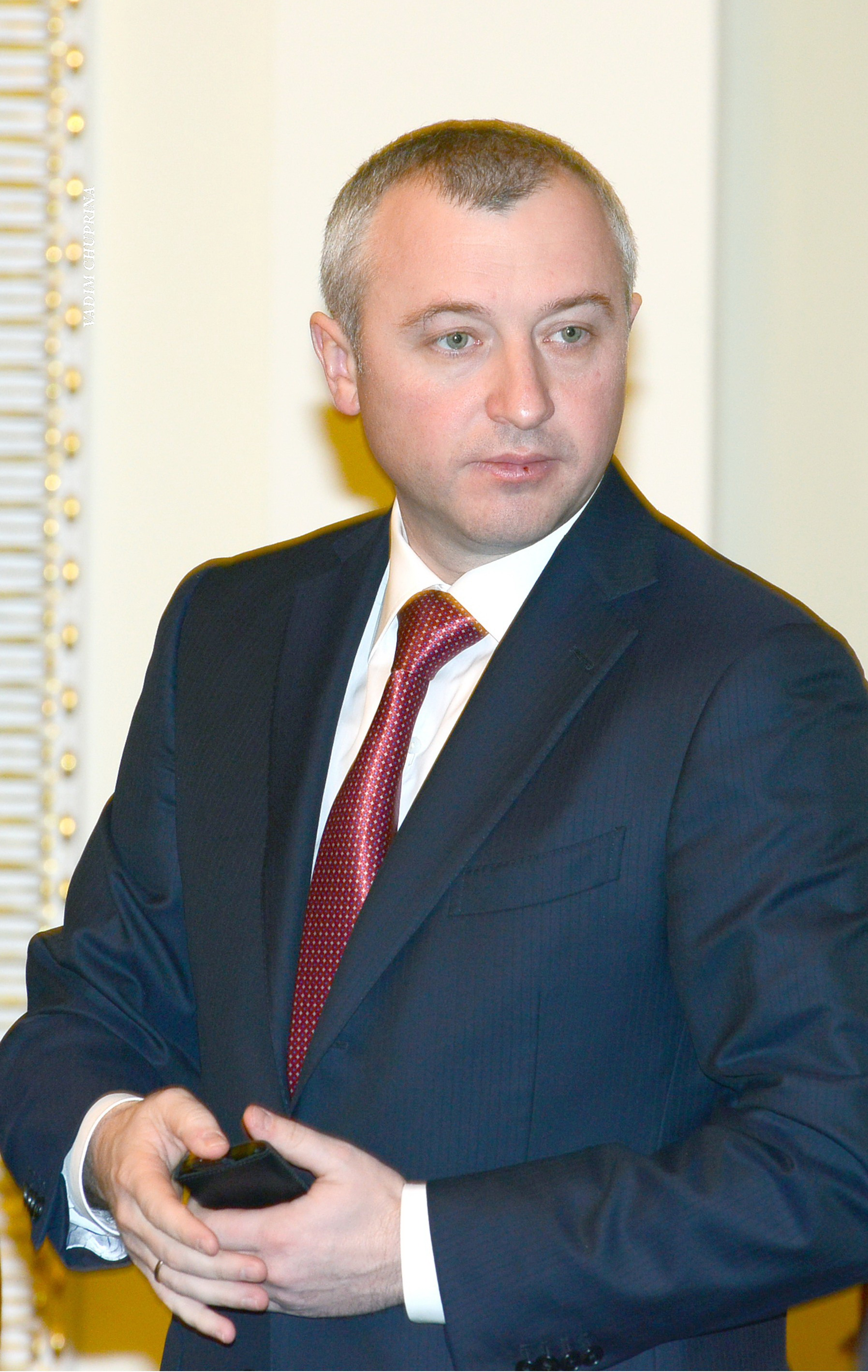 Ukrainian politicians VADIM CHUPRINA